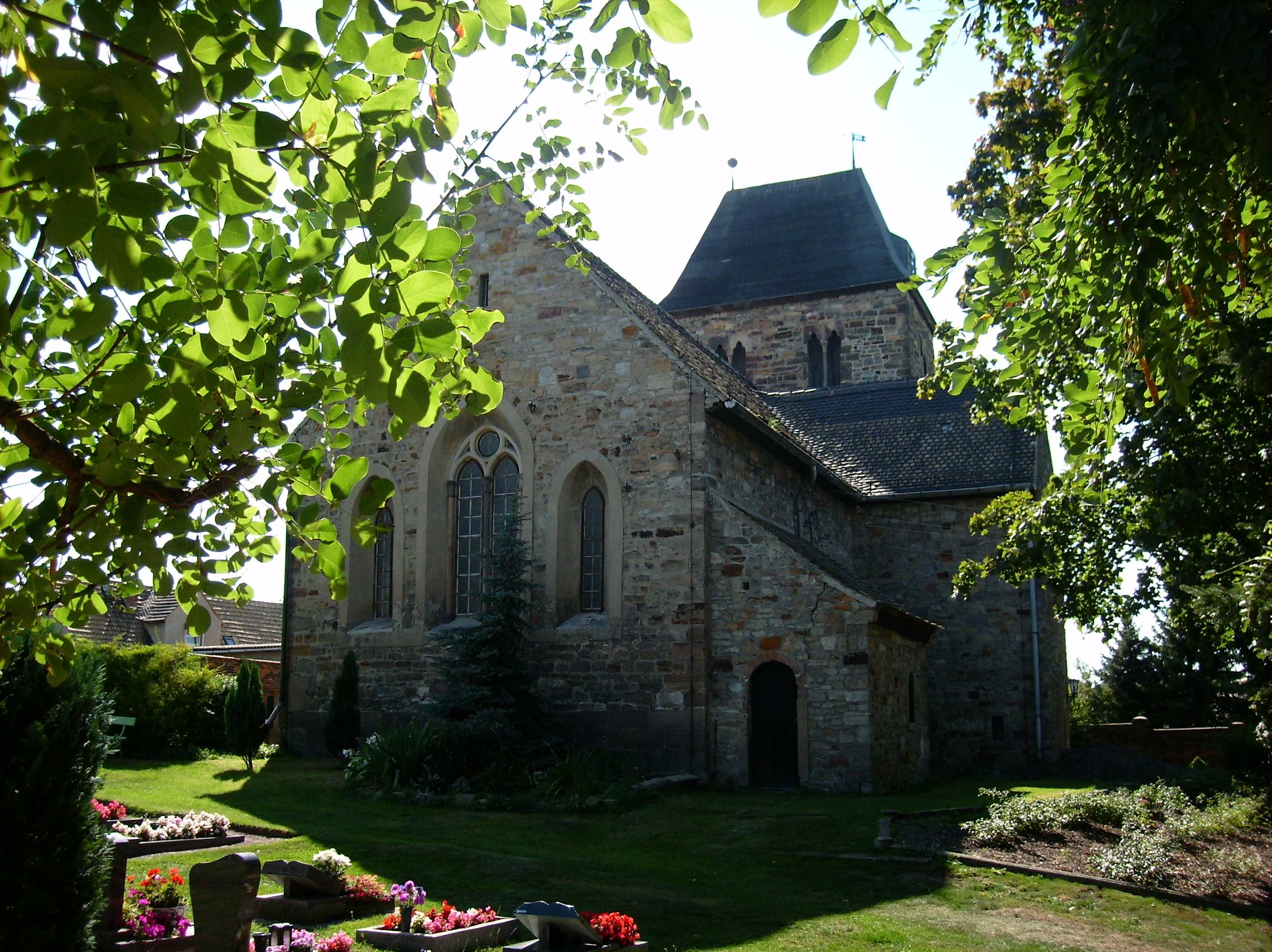 Church in Delitz am Berge (Bad Lauchstädt, district of Saalekreis, Saxony-Anhalt)